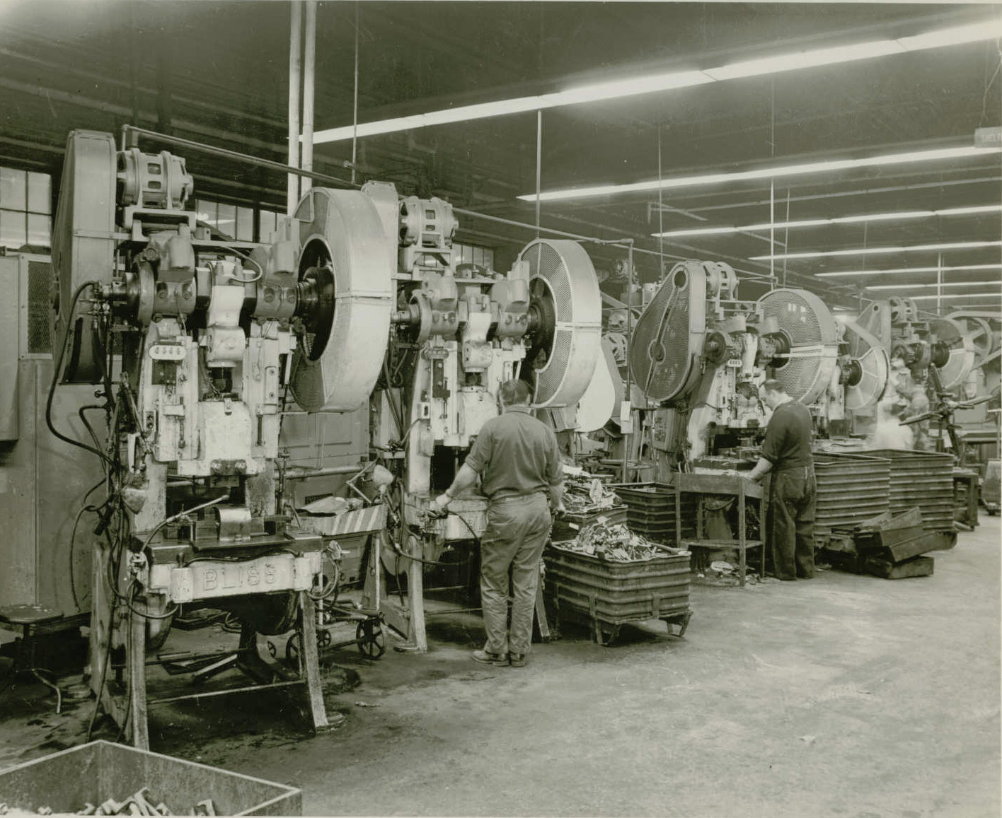 By the mid-20th century, cold forming pliable steel had been perfected and required the use of powerful machines like these to produce weaponry for the US Military